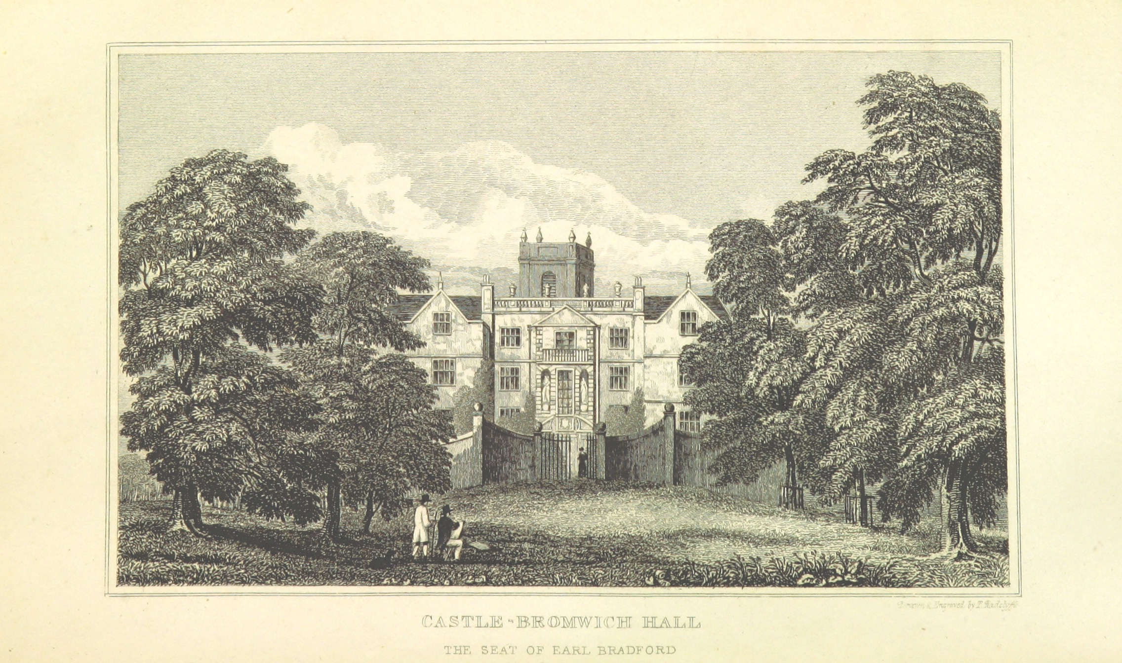 Image extracted from page 619 of An history of Birmingham ... With a new introduction by Christopher R. Erington', by William Hutton. Original held and digitised by the British Library. Copied [ Note: The colours, contrast and appearance of these illustrations are unlikely to be true to life. They are derived from scanned images that have been enhanced for machine interpretation and have been altered from their originals.